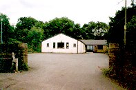 Gwespyr Village Hall